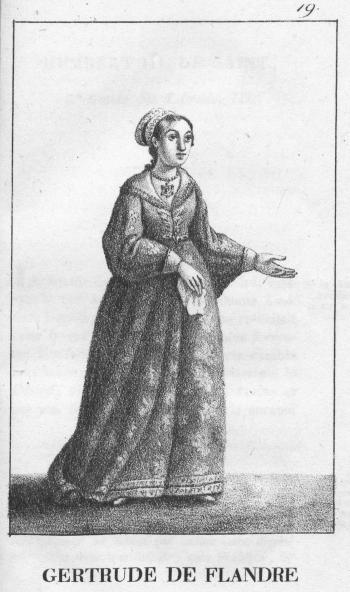 Gertrude of Flanders